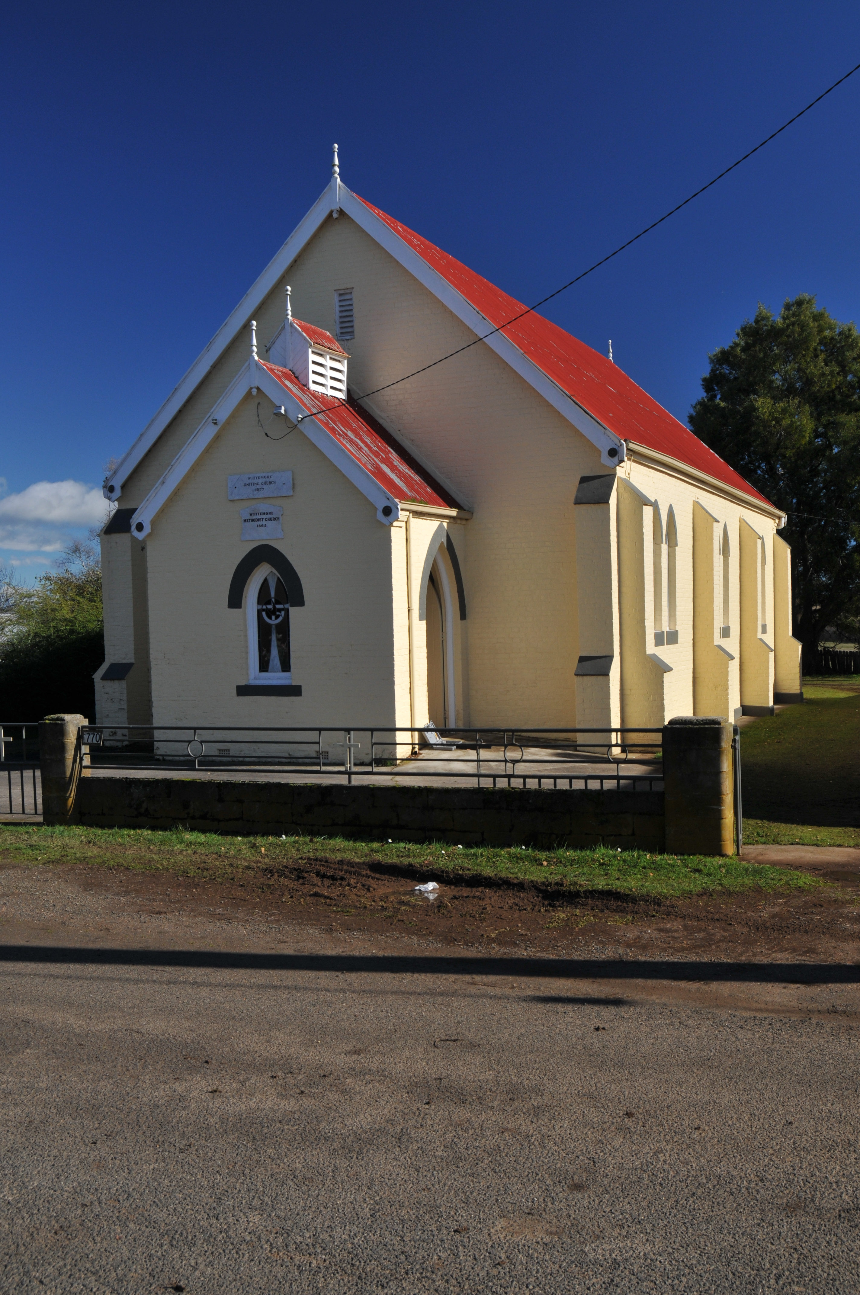 1865 Methodist (since 1977 a Uniting) Church at Whitemore, Tasmania, Australia